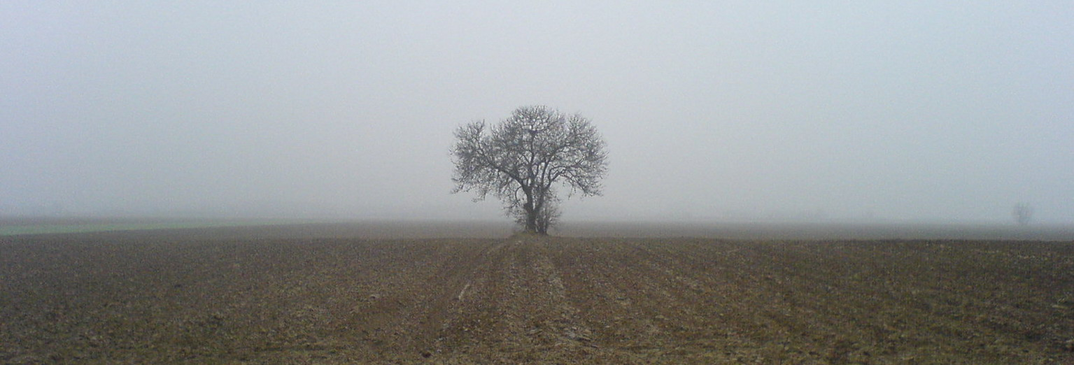 Tree in the fog, Slavonia